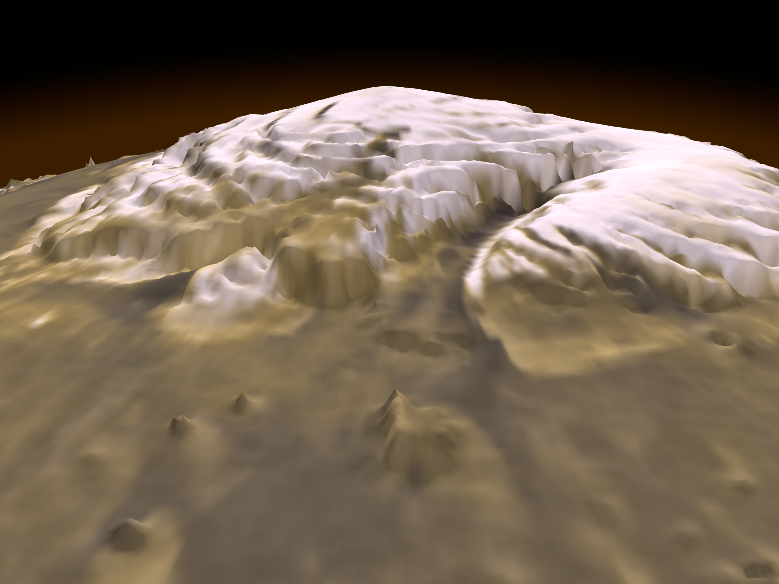 This first three-dimensional picture of Mars' north pole enables scientists to estimate the volume of its water ice cap with unprecedented precision, and to study its surface variations and the heights of clouds in the region for the first time. Approximately 2.6 million of these laser pulse measurements were assembled into a topographic grid of the North pole with a spatial resolution of 0.6 miles (one kilometer) and a vertical accuracy of 15-90 feet (5-30 meters). The principal investigator for MOLA is Dr. David E. Smith of Goddard. The MOLA instrument was designed and built by the Laser Remote Sensing Branch of the Laboratory for Terrestrial Physics at Goddard. The Mars Global Surveyor Mission is managed by NASA's Jet Propulsion Laboratory, Pasadena, CA, for the NASA Office of Space Science, Washington, DC.